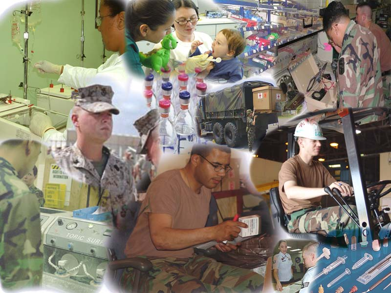 Picture collage of the 16th Medical Battalion (Logistics, Forward)